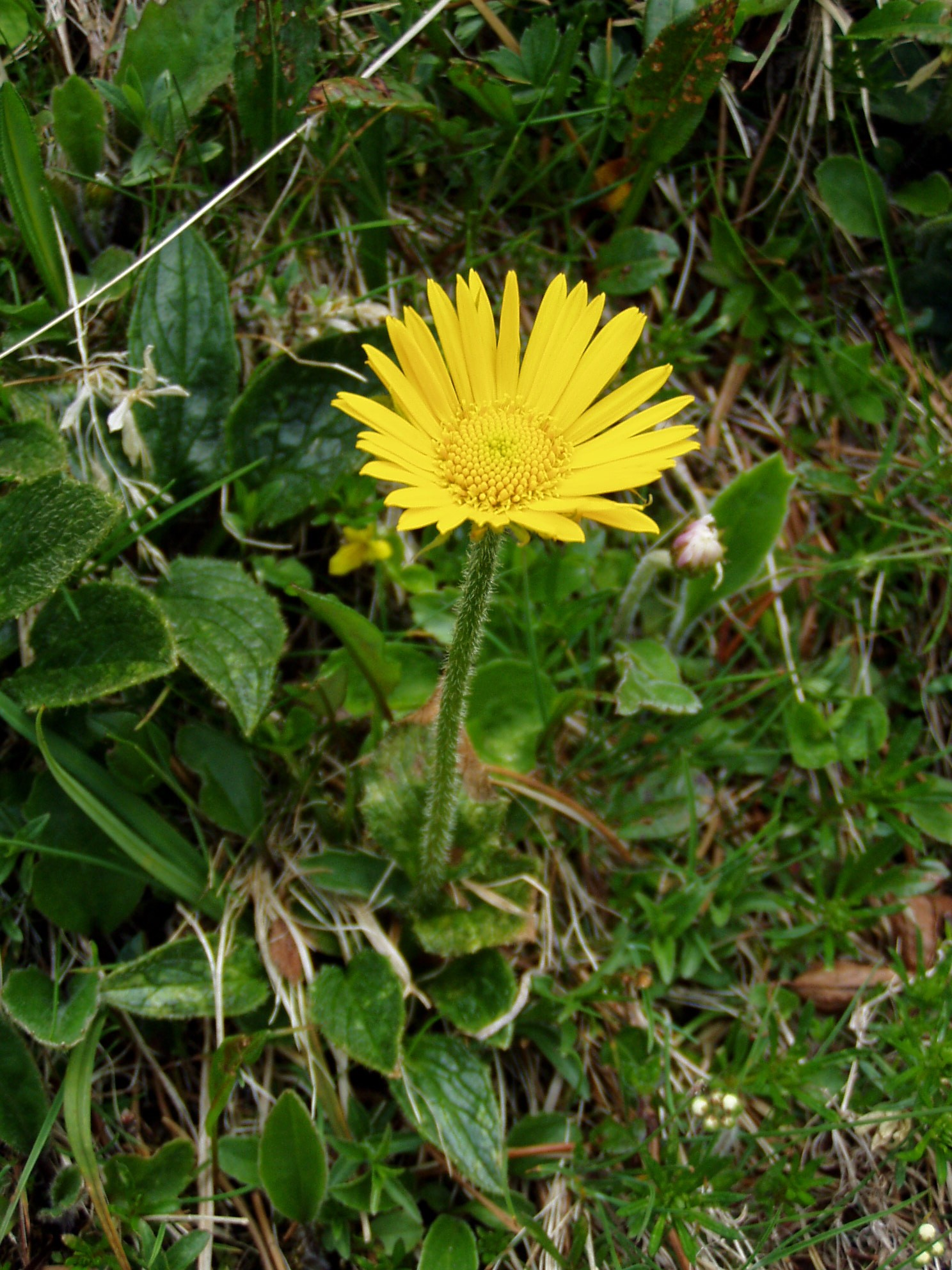 Doronicum glaciale subsp calcareum, photo taken at Rax, Lower Austria. Approx. 1600 m